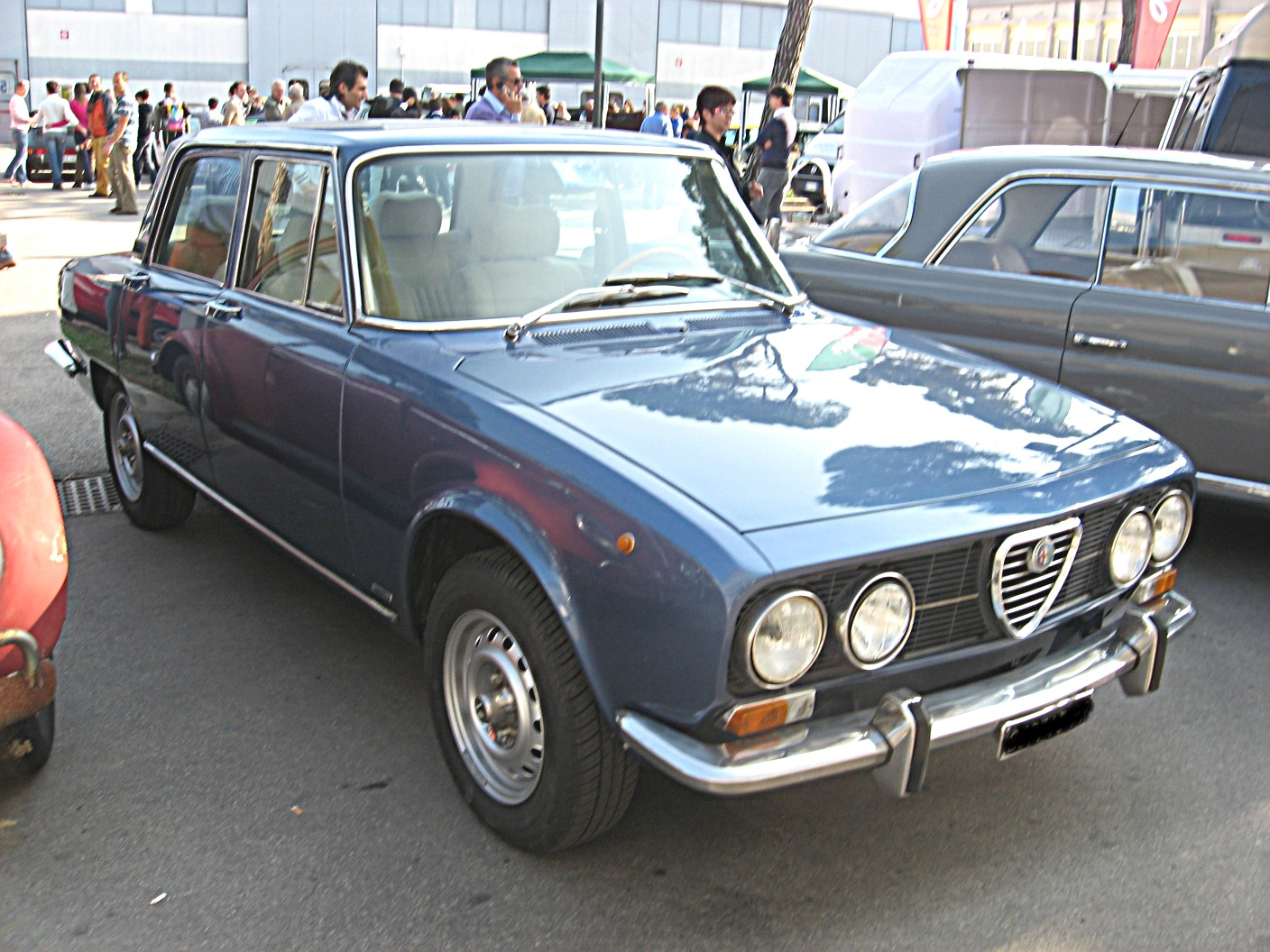 Subject: Alfa Romeo 2000 (1971) Date:October 26th, 2008 Event: Auto e Moto d'Epoca 2008 Place/Country: Padova, Italy I release all rights in the public domain.